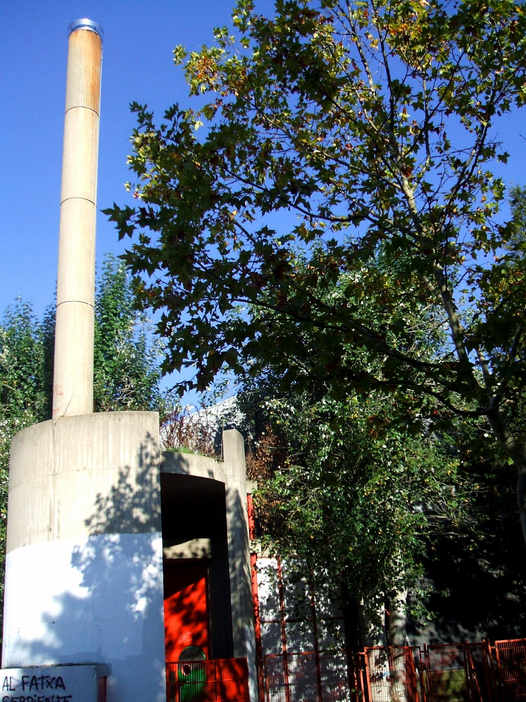 Parroquia de San Francisco de Asís, en Vitoria-Gasteiz (Álava, País Vasco, España)